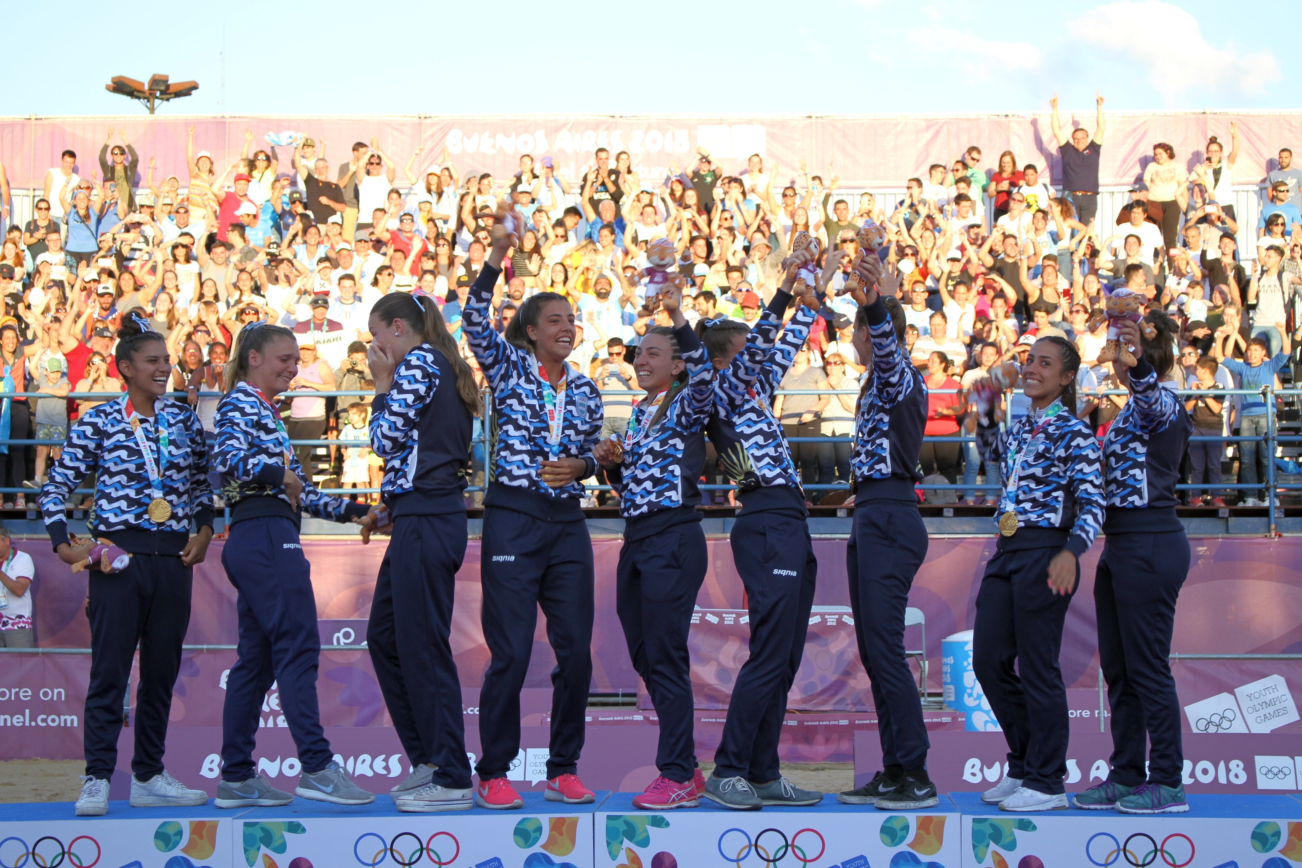 Beach handball at the 2018 Summer Youth Olympics in Buenos Aires at 13 October 2018 – Medal Ceremony Girls - Gold: Argentina, Silver: Croatia, Bronze: Hungary